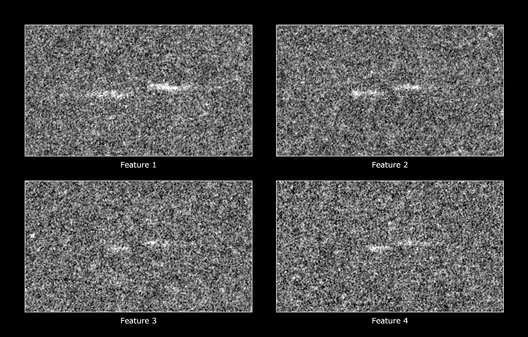 These figures show the four propeller-shaped structures discovered in close-up images of Saturn’s A ring. The propellers are about 5 kilometers (3 miles) long from tip to tip, and the radial offset (the "leading" dash is slightly closer to Saturn) is about 300 meters (1000 feet). See PIA07792 and PIA07791 for additional images and information about these features. The figures were cropped from two original Cassini spacecraft narrow angle camera images (taken during Saturn orbit insertion on July 1, 2004) and magnified for visibility. The images were then reprojected so that orbital motion is to the left, and Saturn is up. The unseen moonlets lie in the center of each structure.